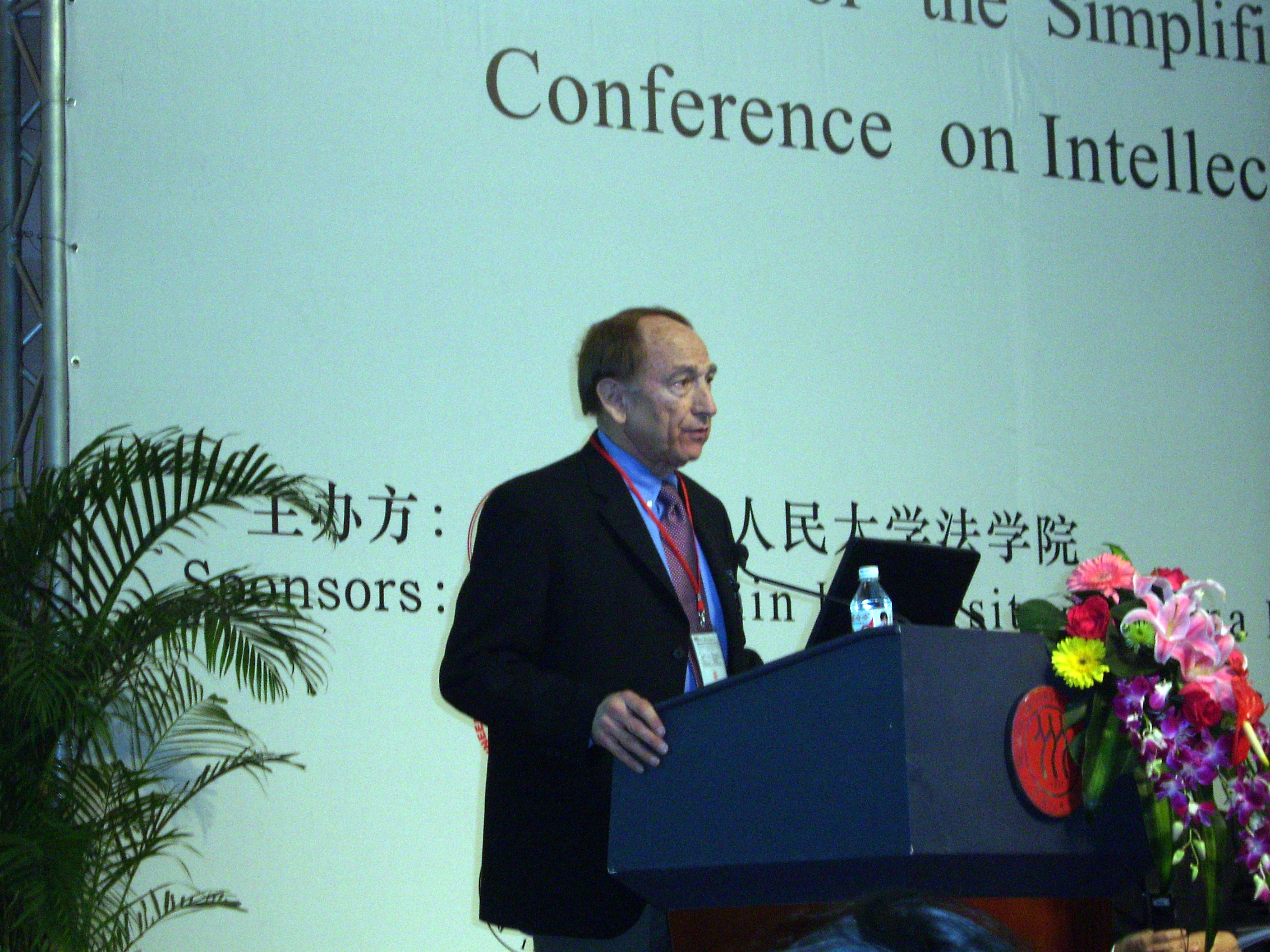 Stewart Cheifet addressing conference in Beijing, China, March 2005